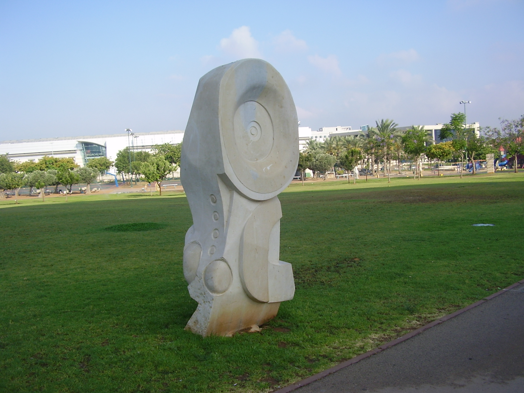 Tuba in Petah Tikva, Israel